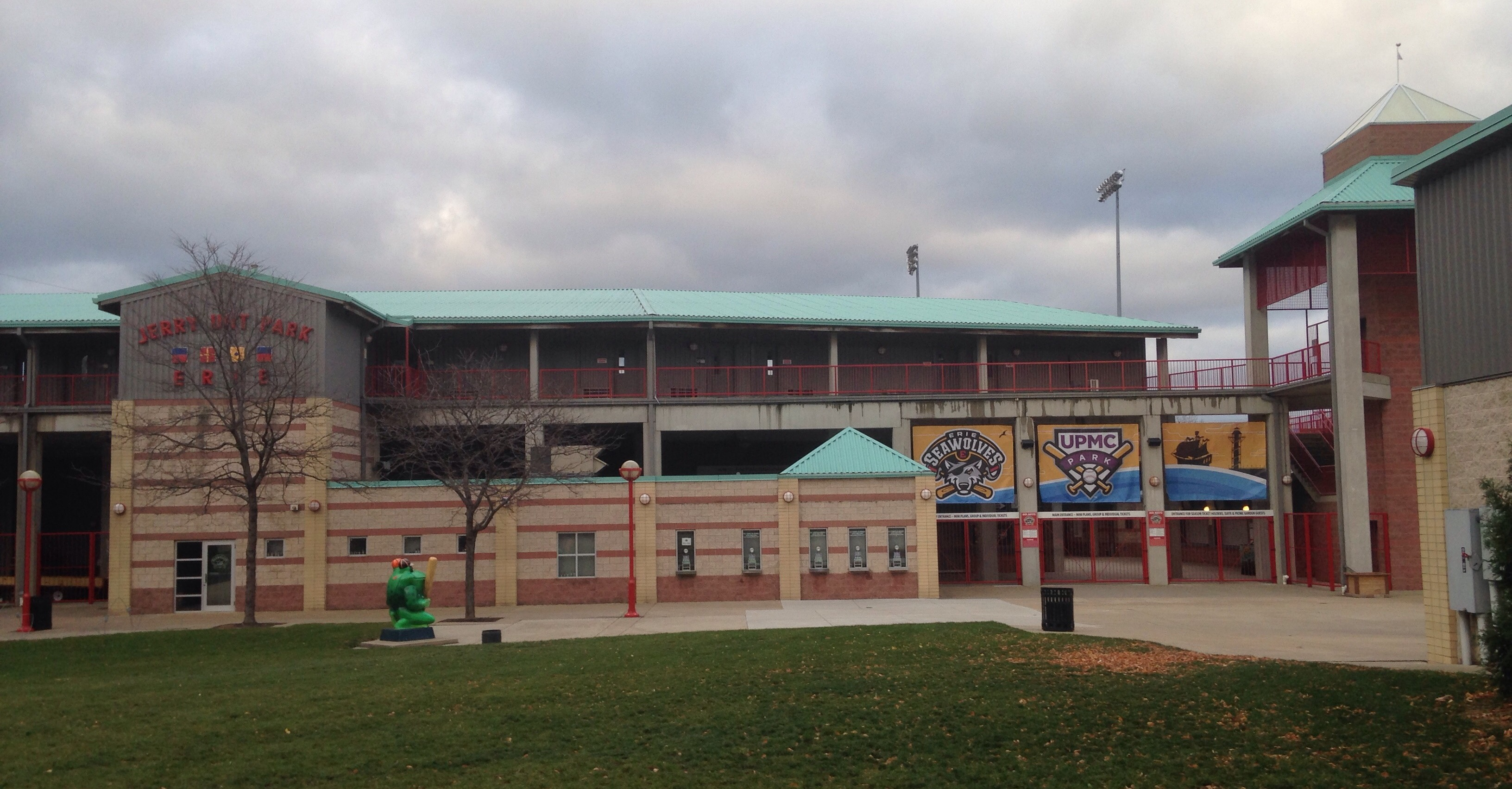 Entrance to UPMC Park in Erie, Pennsylvania